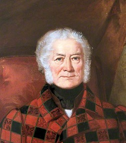 John Borthwick Gilchrist, cropped from UCL portrait by Blanconi